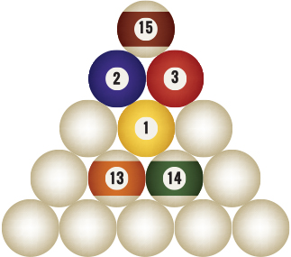 American Rotation Rack